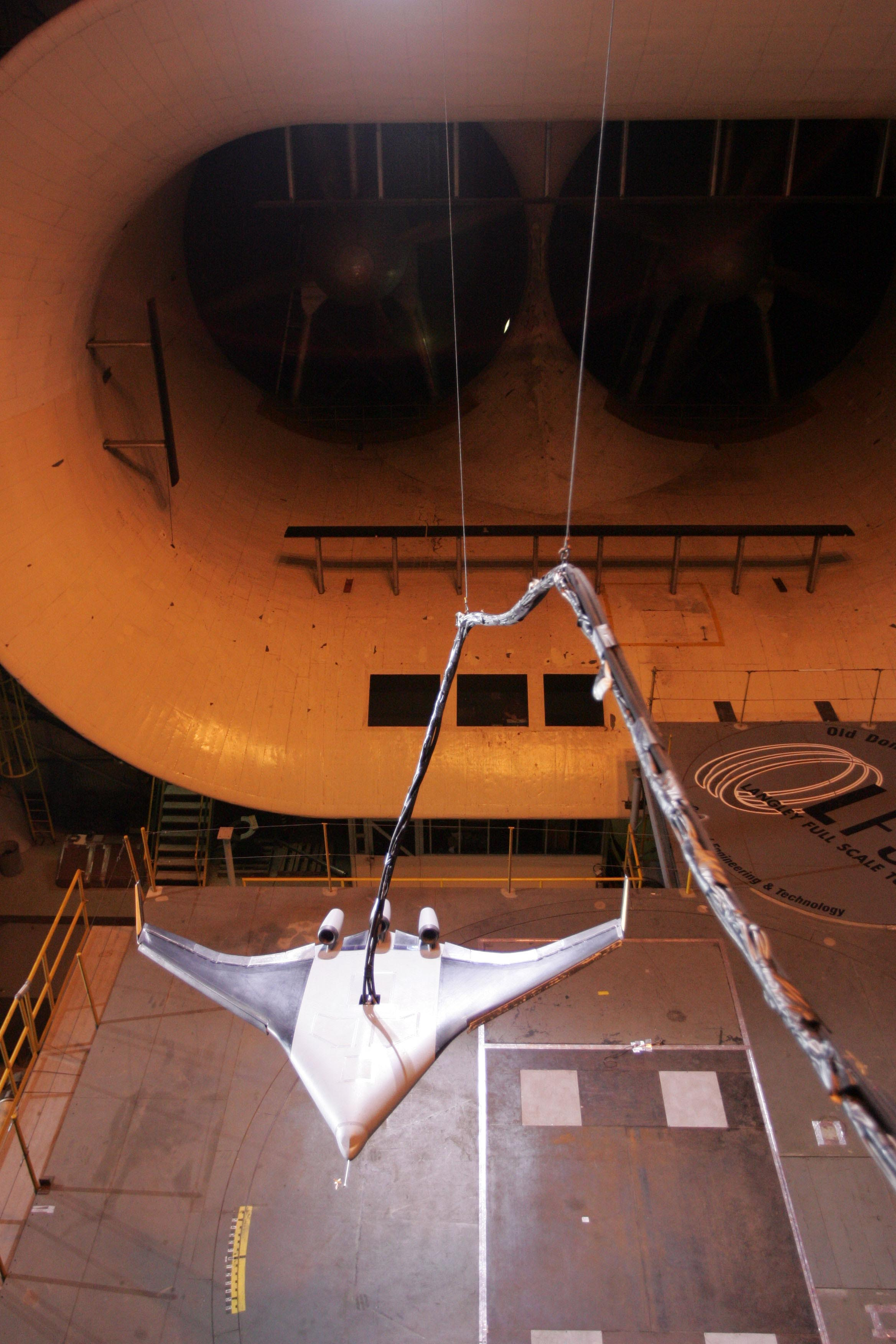 Scale model of a blended wing aircraft in the Langley Full-Scale Tunnel.